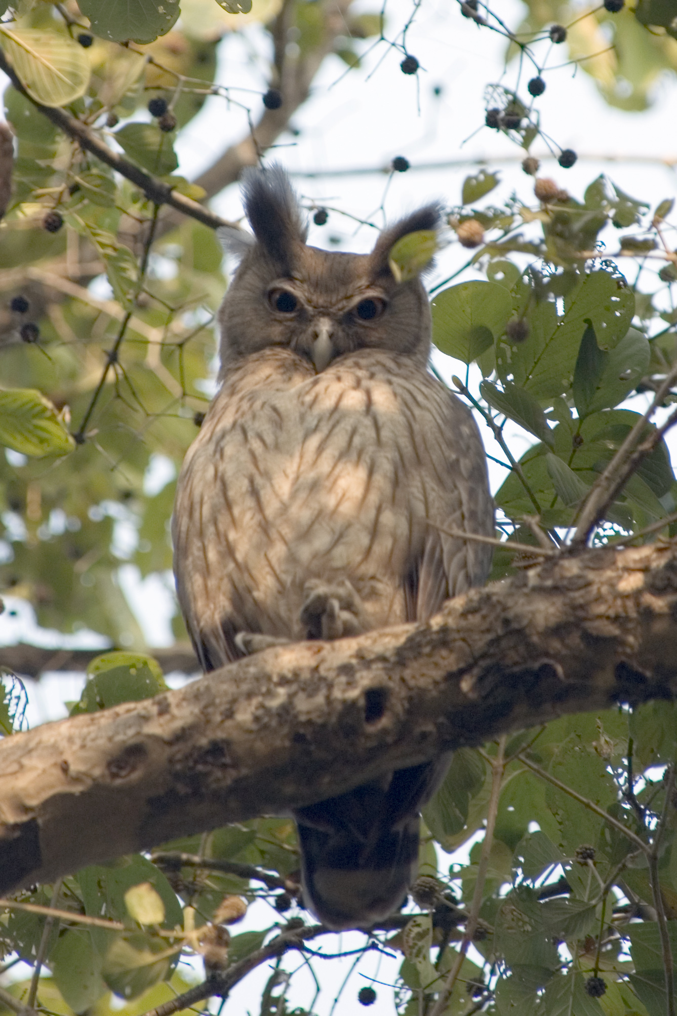 dusky eagle owl Bubo coromandus